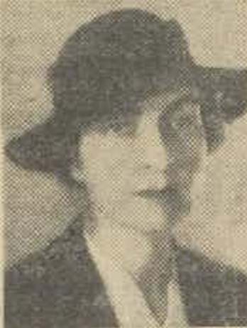 Beryl Bryant (1893-1973) American-born Australian actress and theatrical producer